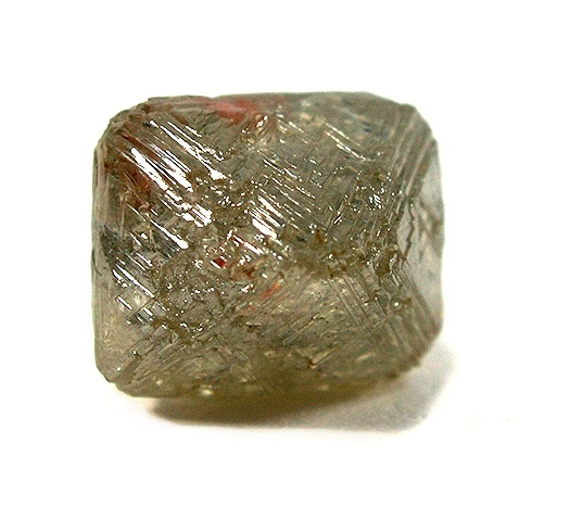 Diamond Locality: De Beers Mine, Kimberley, Northern Cape Province, South Africa (Locality at ) An impressively large, translucent octohedron with a waxy beige-gray color, this diamond makes for a hefty display-quality example! It has interesting reddish inclusions visible from two faces, as well. This piece is from the Ruggiero Collection, acquired in 1978 . It is 10 mm on edge or larger measured across, about 1.1 to 1.3 cm 11.75 carats: 13 x 11 x 11 mm This Photo was Photo of the Day - 28th Feb 2006